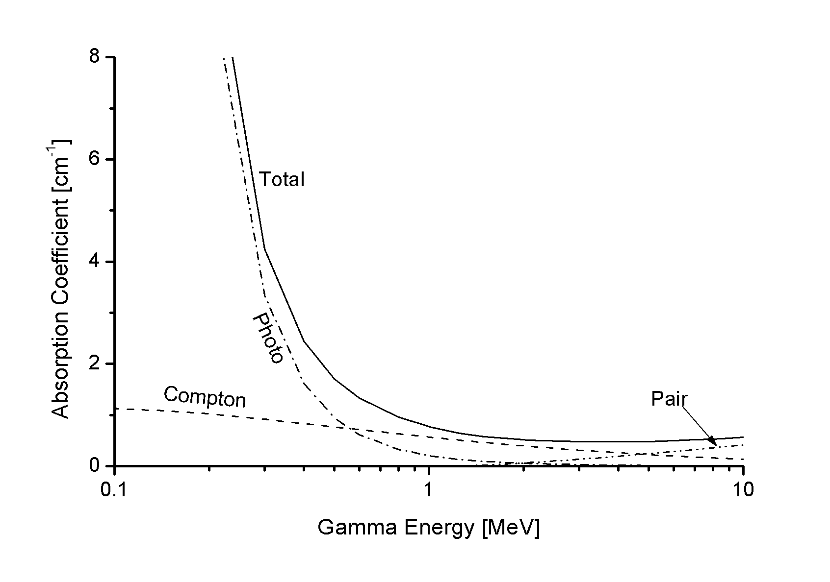 Gamma absorption coefficient of lead, versus energy